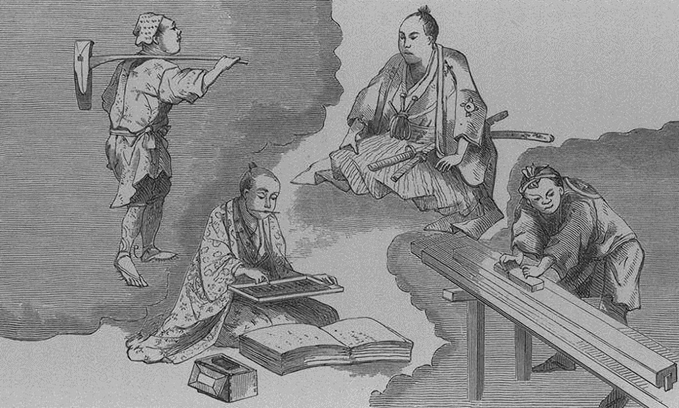 The four classes of society in Japan during the Edo period: military, agricultural, laboring, and mercantile. Artwork made by Ozawa Nankoku.